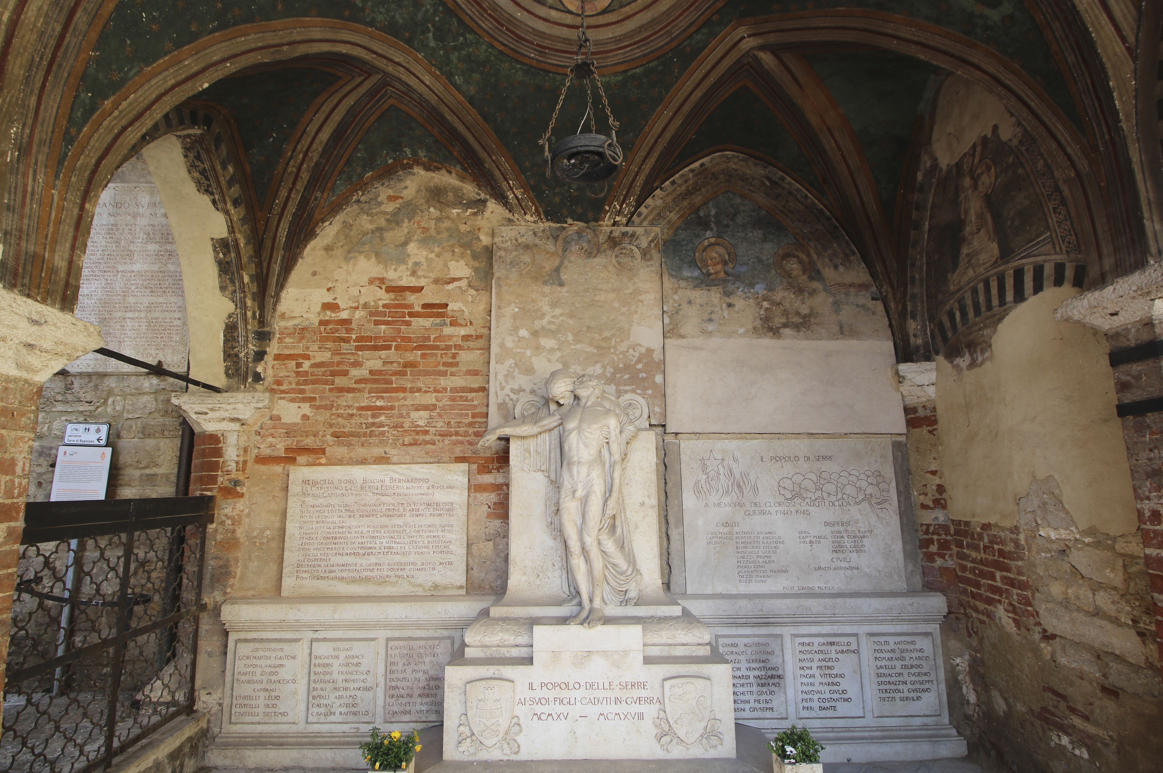 Chapel Cappella di Piazza in Serre di Rapolano, Rapolano Terme, Province of Siena, Tuscany, Italy